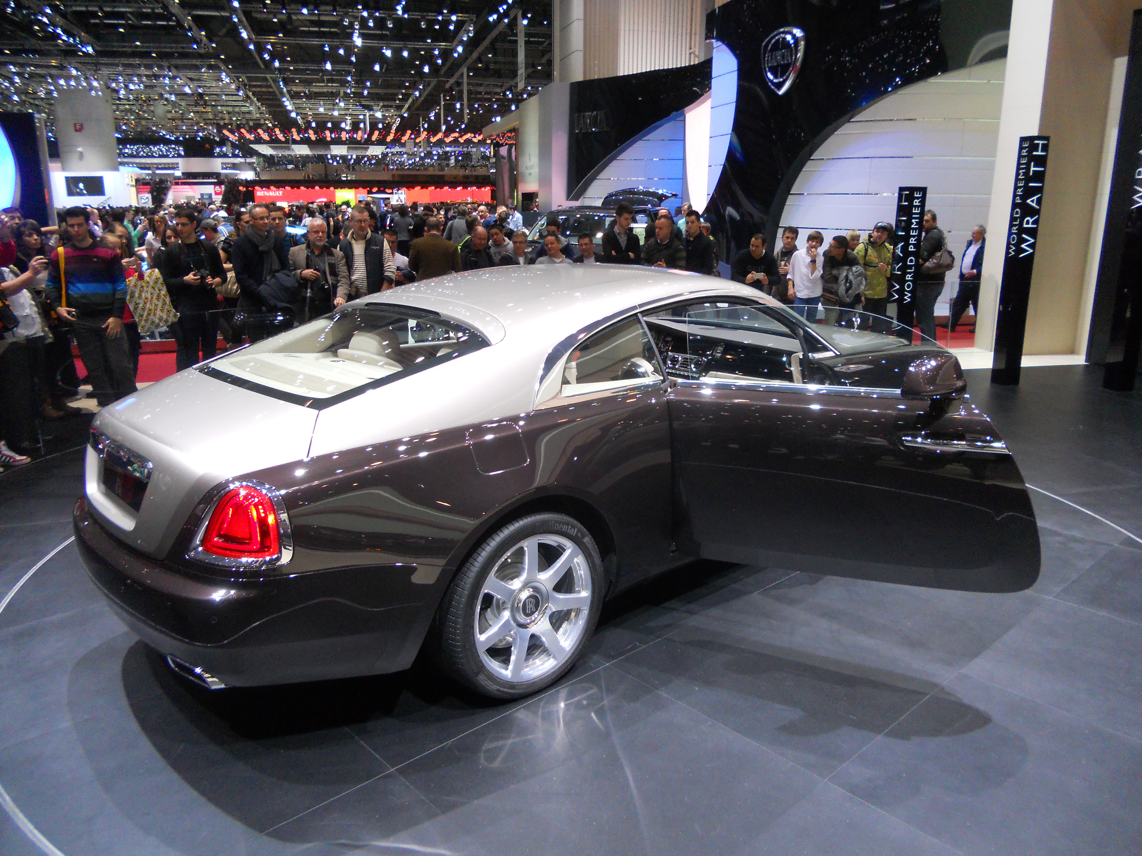 A Rolls-Royce Wraith at the 83rd International Geneva Motor Show.